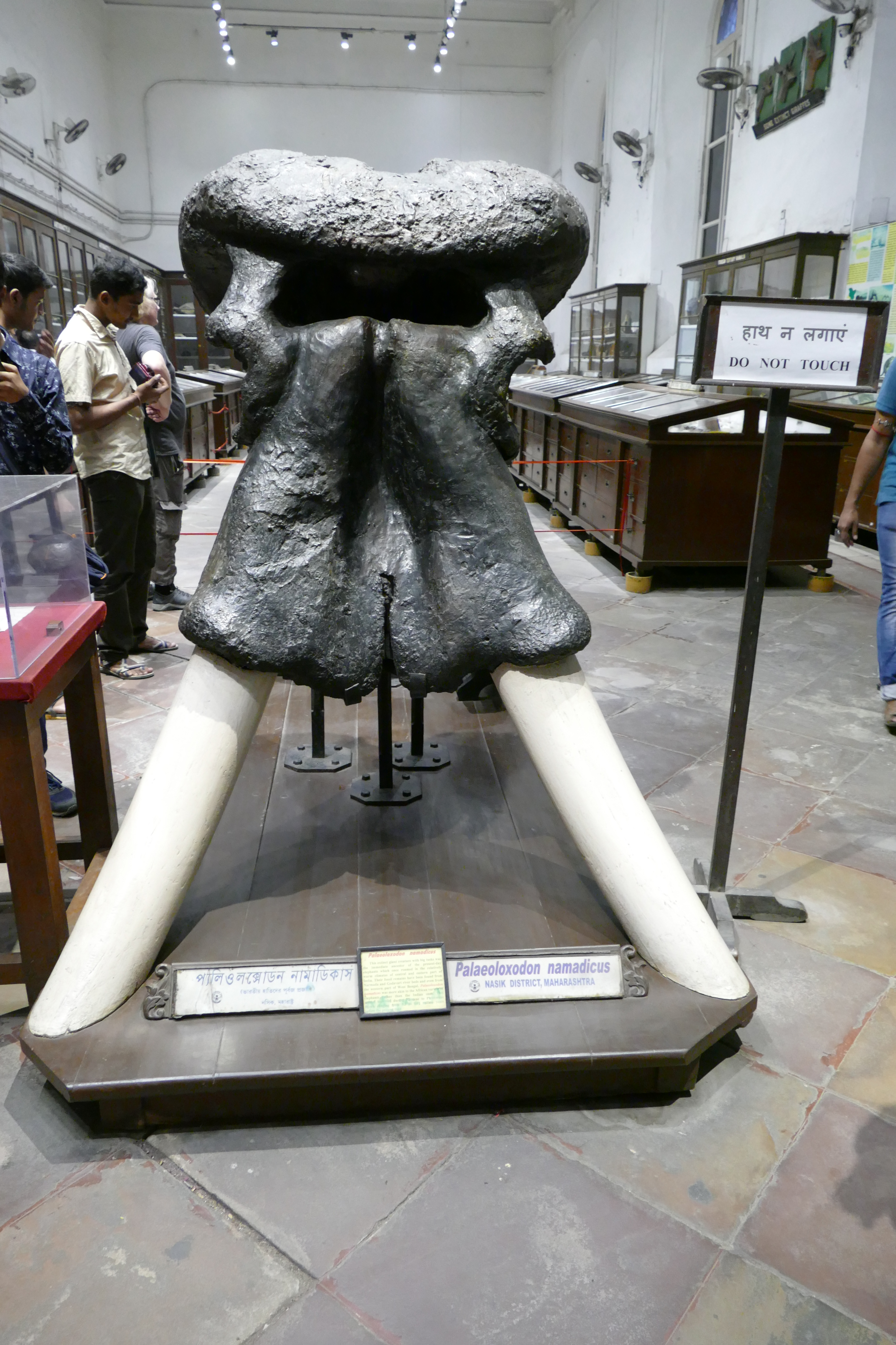 Fossils in the Indian Museum, Kolkata, skull of a Palaeoloxodon namadicus